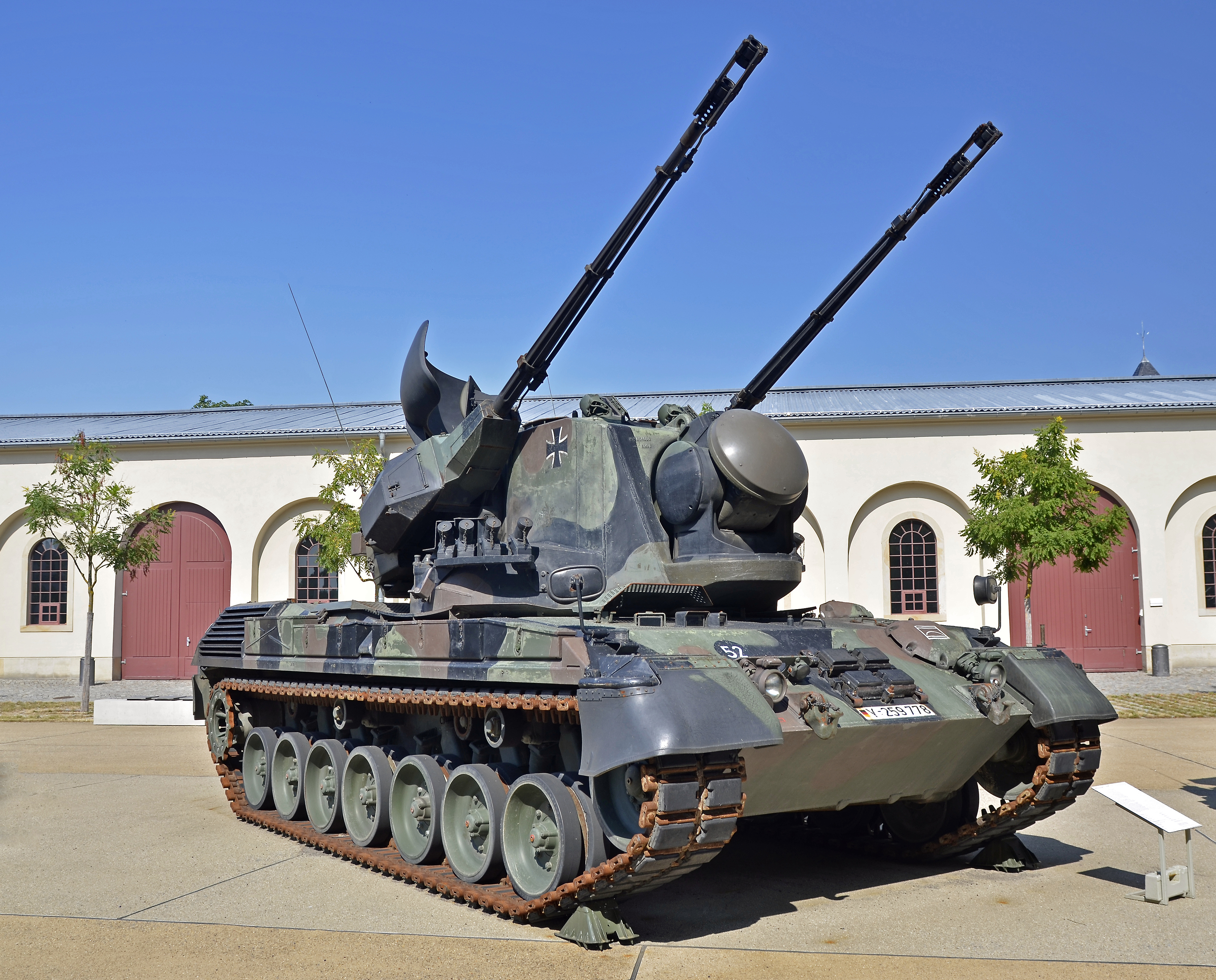 Flakpanzer Gepard - Military Historical Museum (MHM) in Dresden